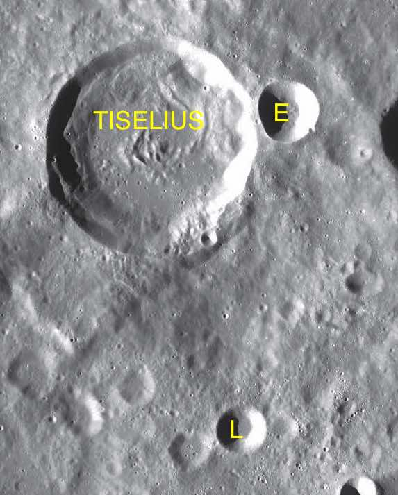 Part of the chart LAC-68 used for the presentation